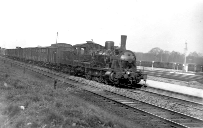 Steam locomotive Nord 040 4.1084.